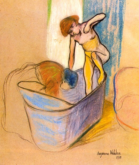 The Bath. (1908). Suzanne Valadon. Pastel. 60x49 cm. Grenoble: Museum of Grenoble